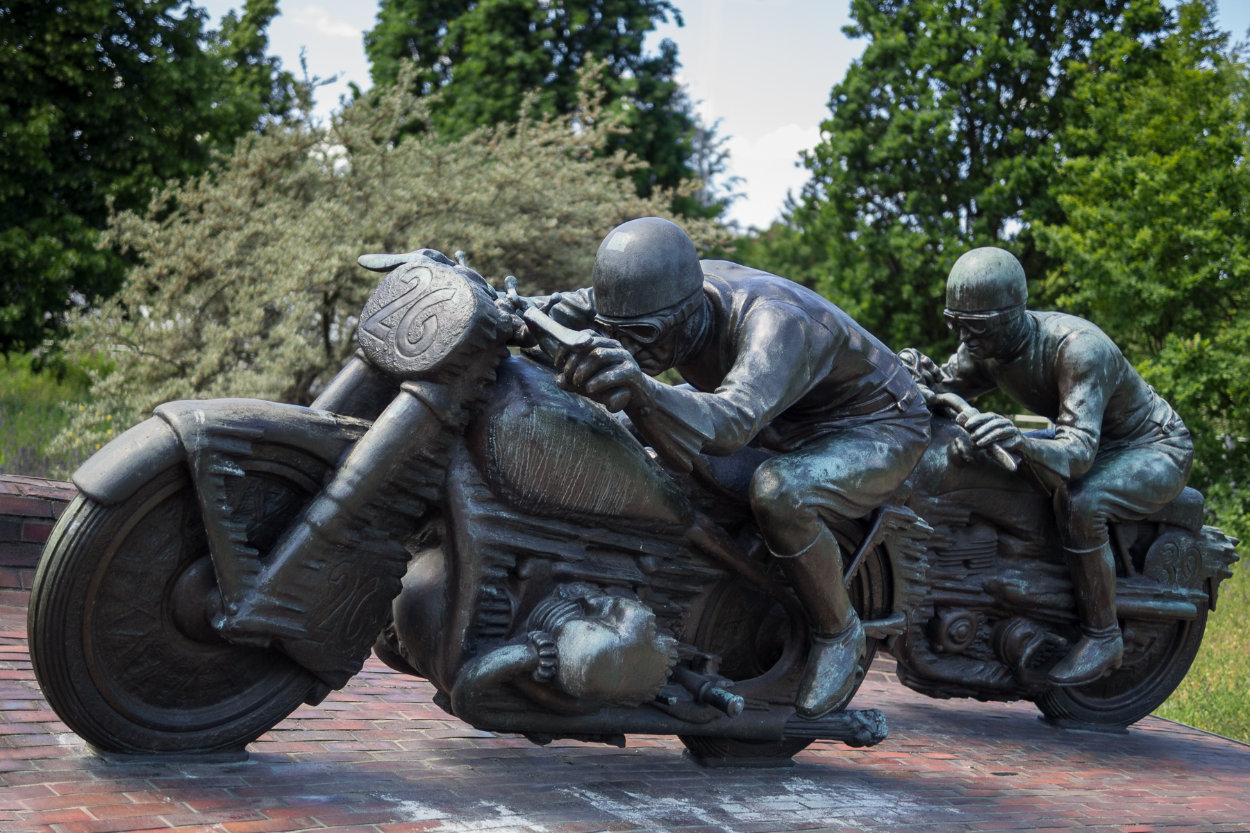 sculpture "motorcycle racers" from Max Esser 1938/1939